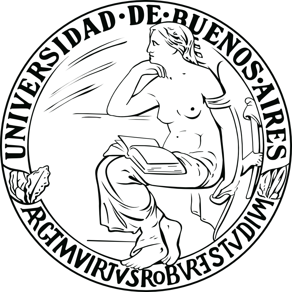 Seal of the Buenos Aires University.